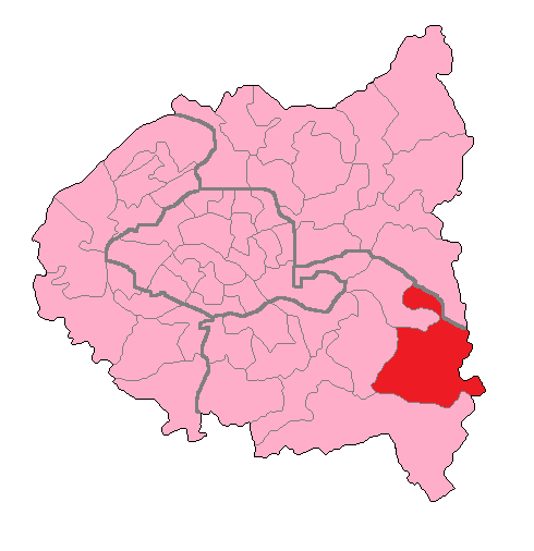 Map of Val-de-Marne's 4th constituency shown within Ile-de-France (Petite Couronne)